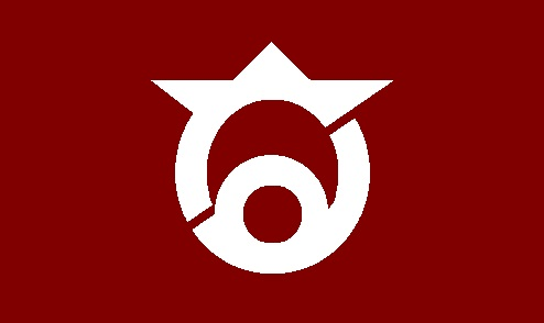 Flag of Nanmoku Gunma